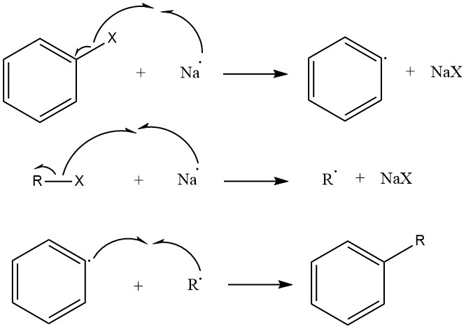 Radical Mechanism for the Wurtz-Fittig Reaction